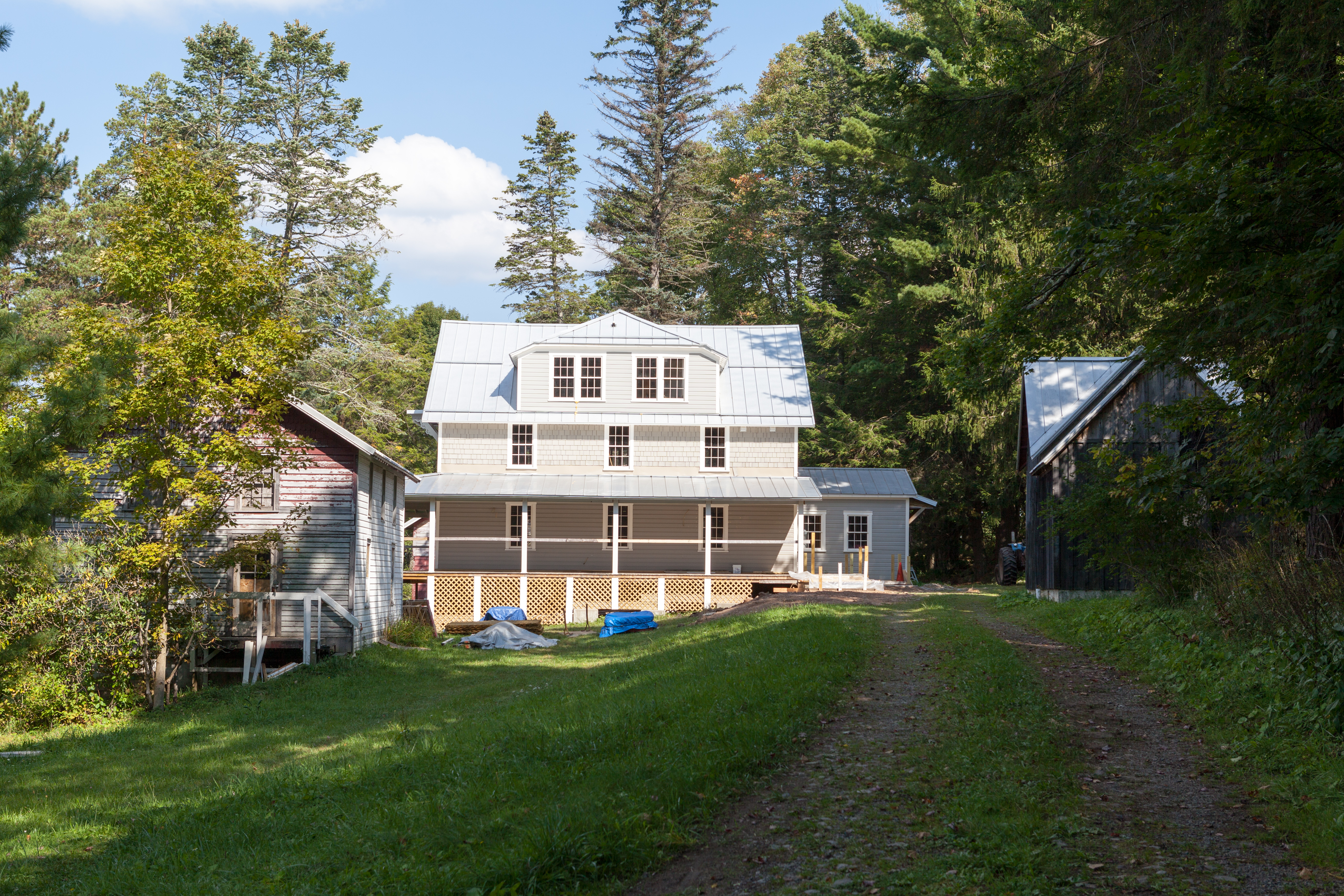 Looking east at the (left to right) Sycamore, Keystone, and Carbide cottages, part of the Brookside Historic District near Aurora, West Virginia.